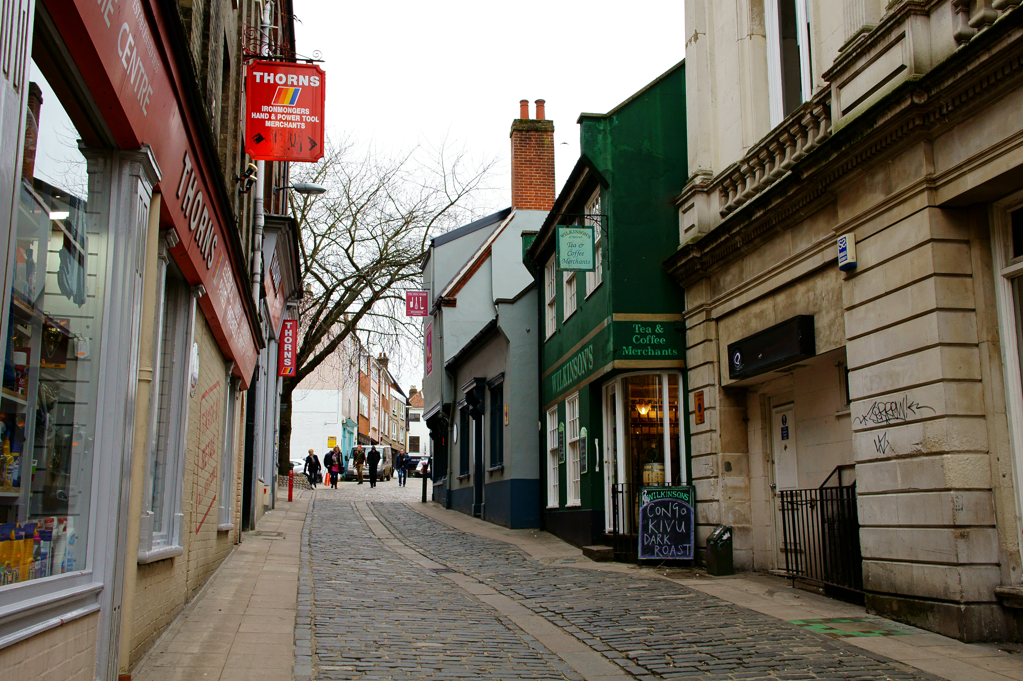 Lobster Lane, Norwich